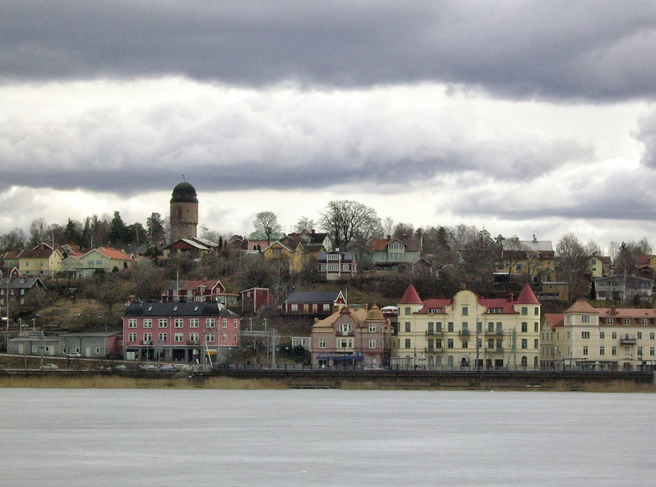 Picture of Gnesta from Frösjön